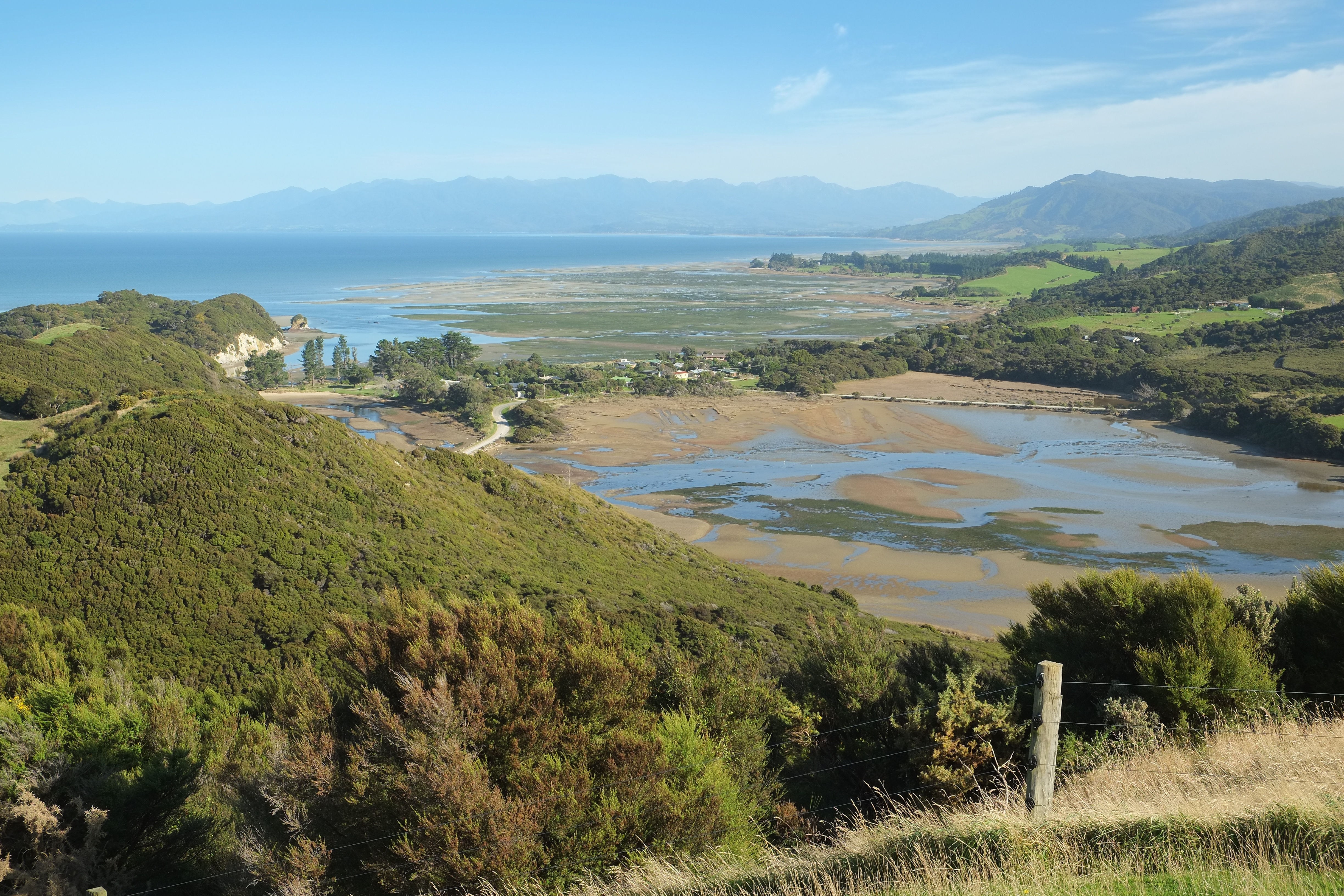 Overlooking Port Puponga towards south, the houses of the main residential area of Puponga visible in the center, with Puponga Point at the left.